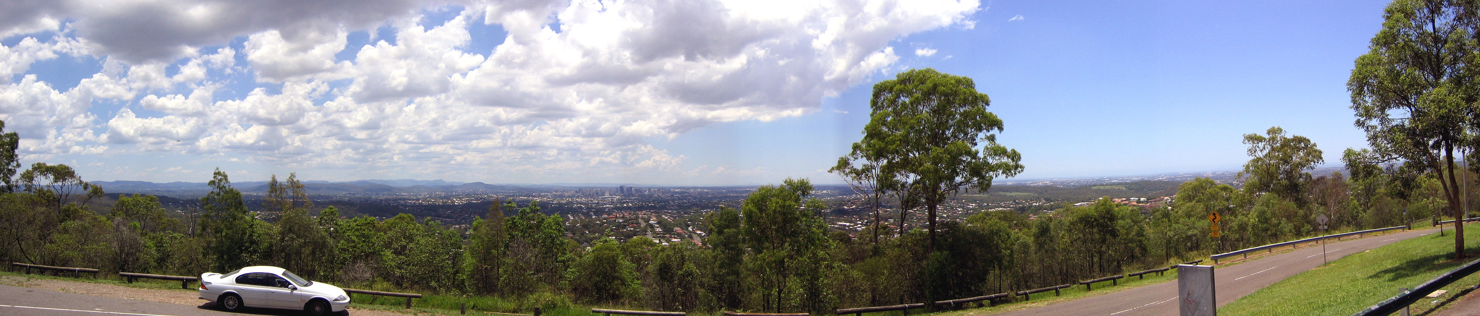 Panoroma of stitched photos taken at Mt Gravatt.